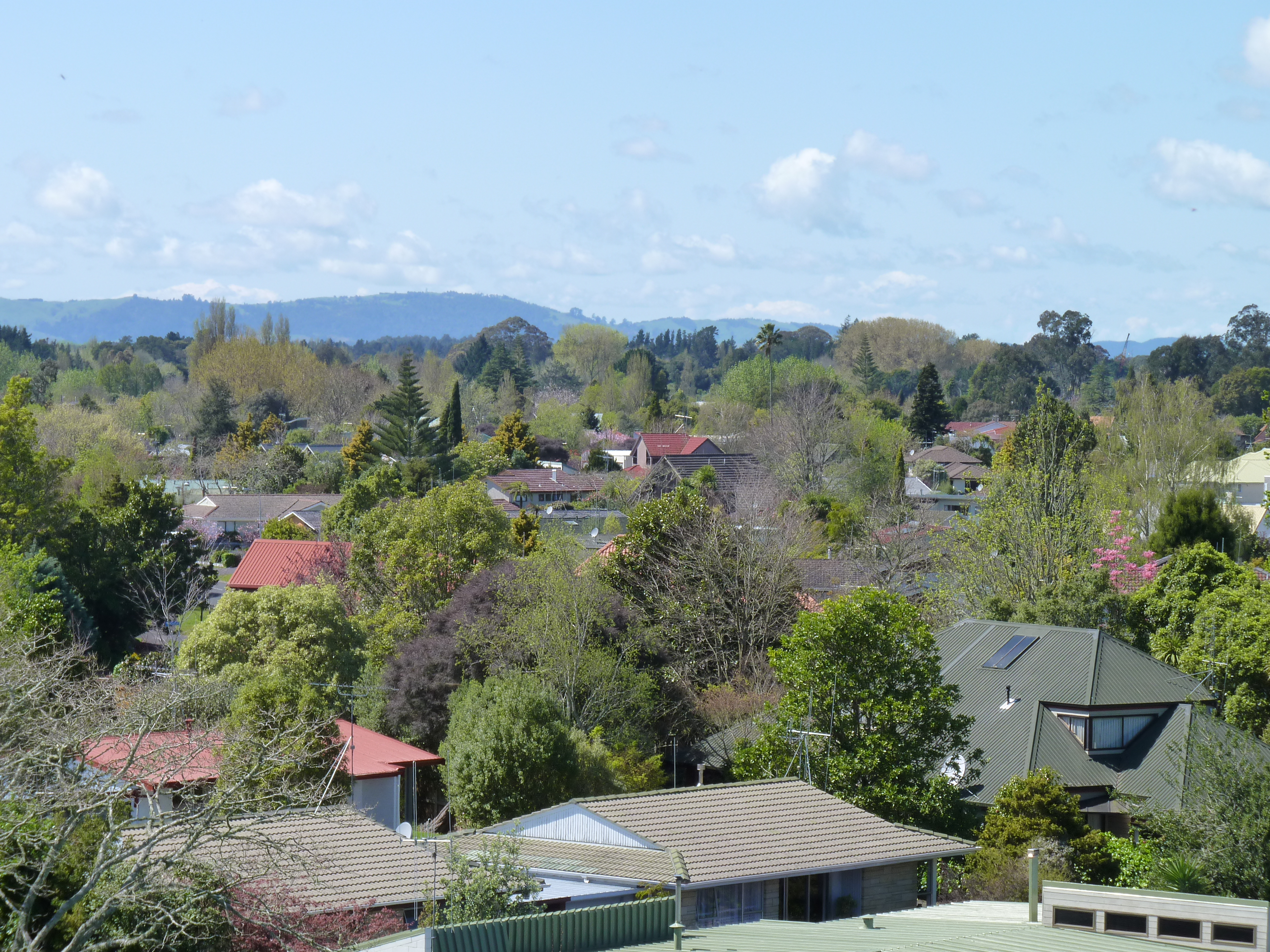 Riverlea in southeast Hamilton, New Zealand